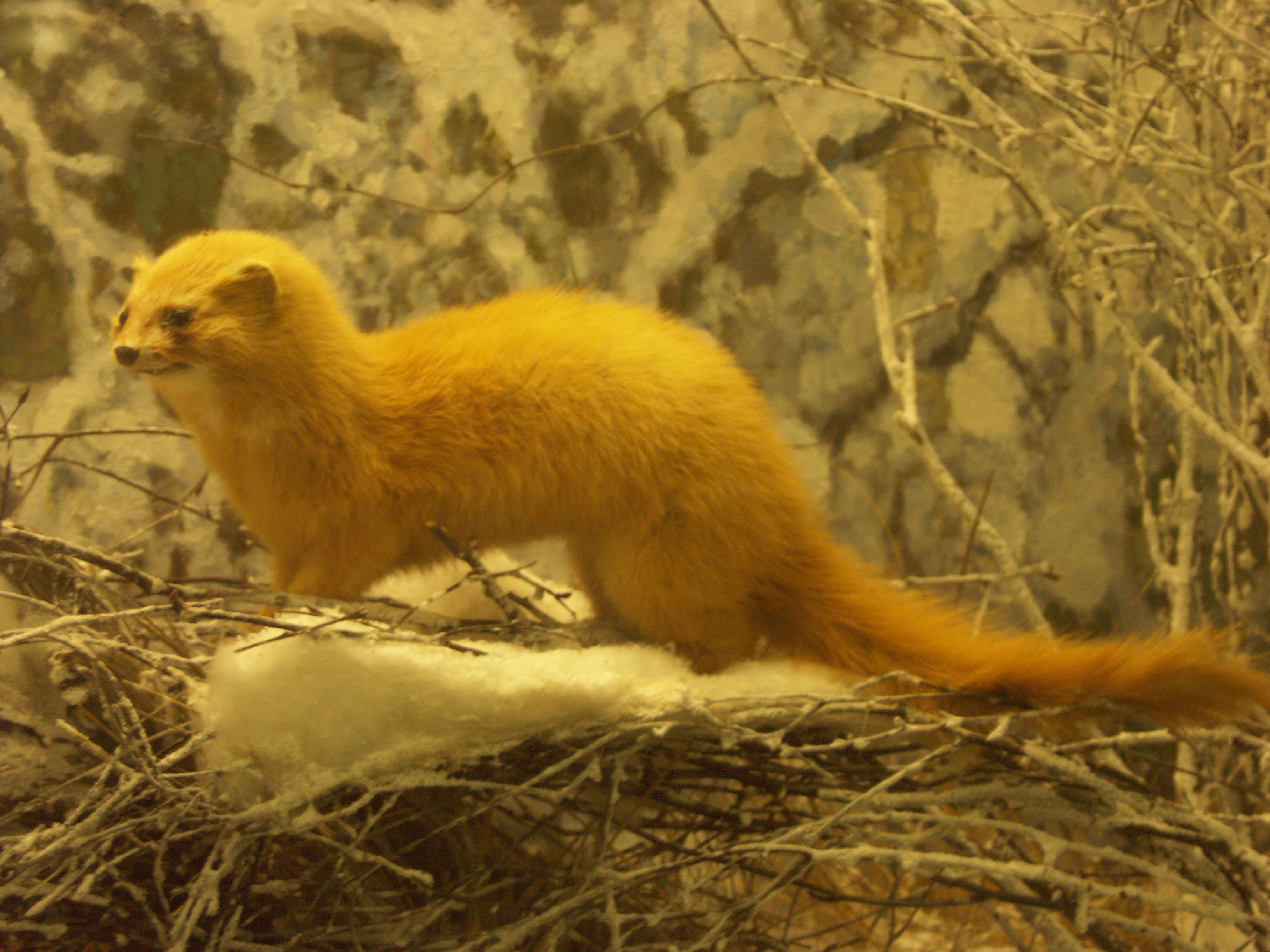 Kolonok exhibit in the Museum of Zoology, St. Petersburg